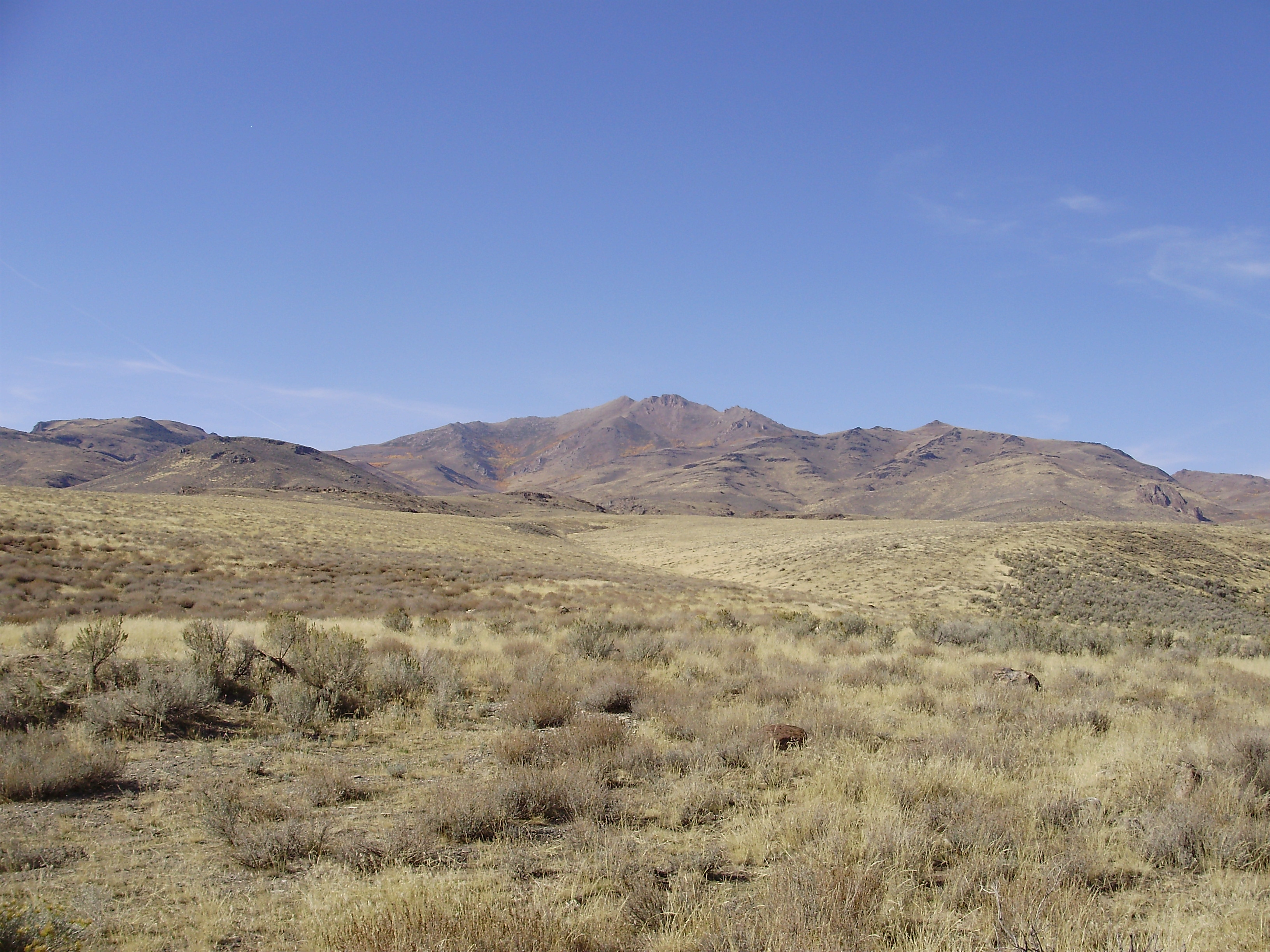 View of Granite Peak from about 5300 feet on Hinkey Summit Road south of Hinkey Summit in Humboldt County, Nevada